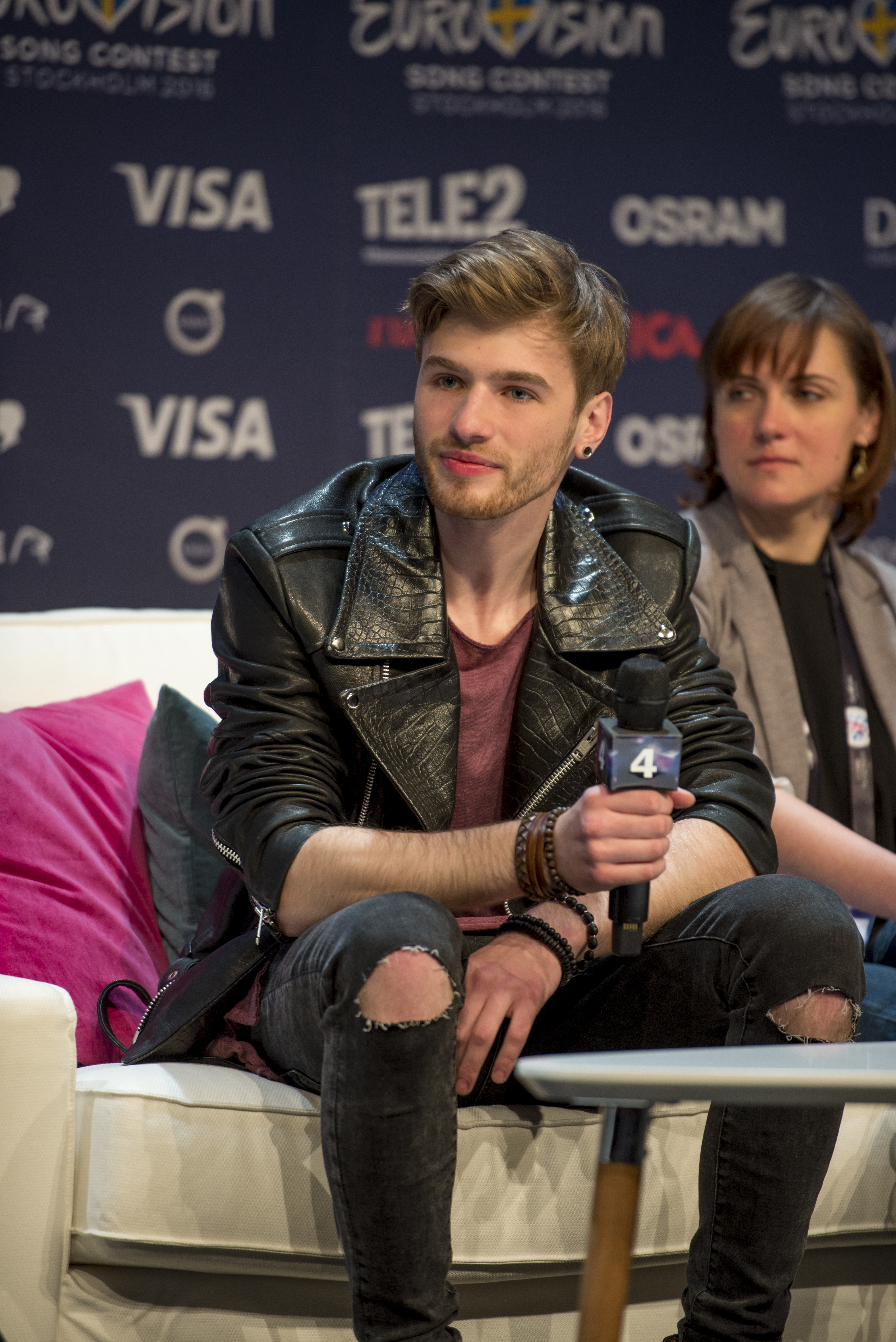 Justs at a Meet & Greet during the Eurovision Song Contest 2016 in Stockholm. (Help translate this text)